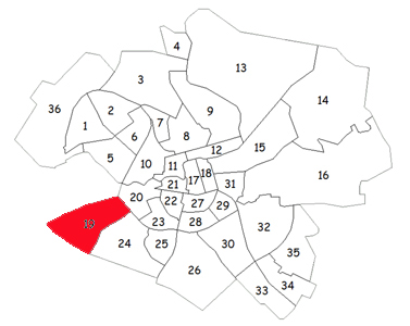 Klockaretorpet